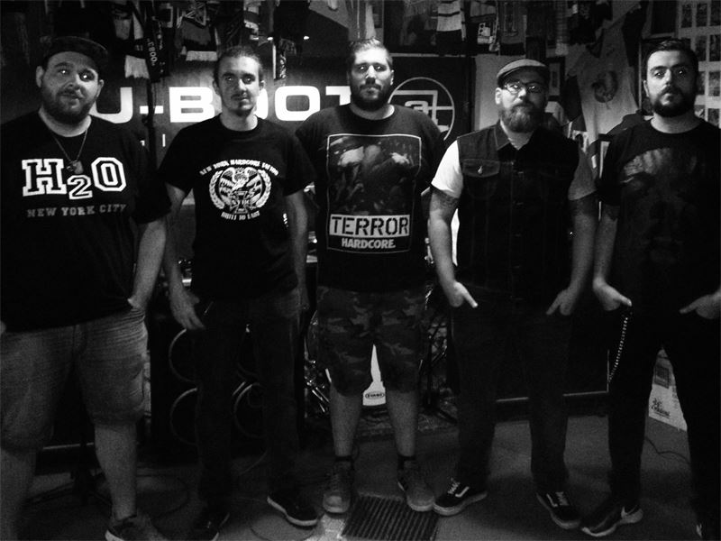 Green Arrows' line-up for "Our Reality"